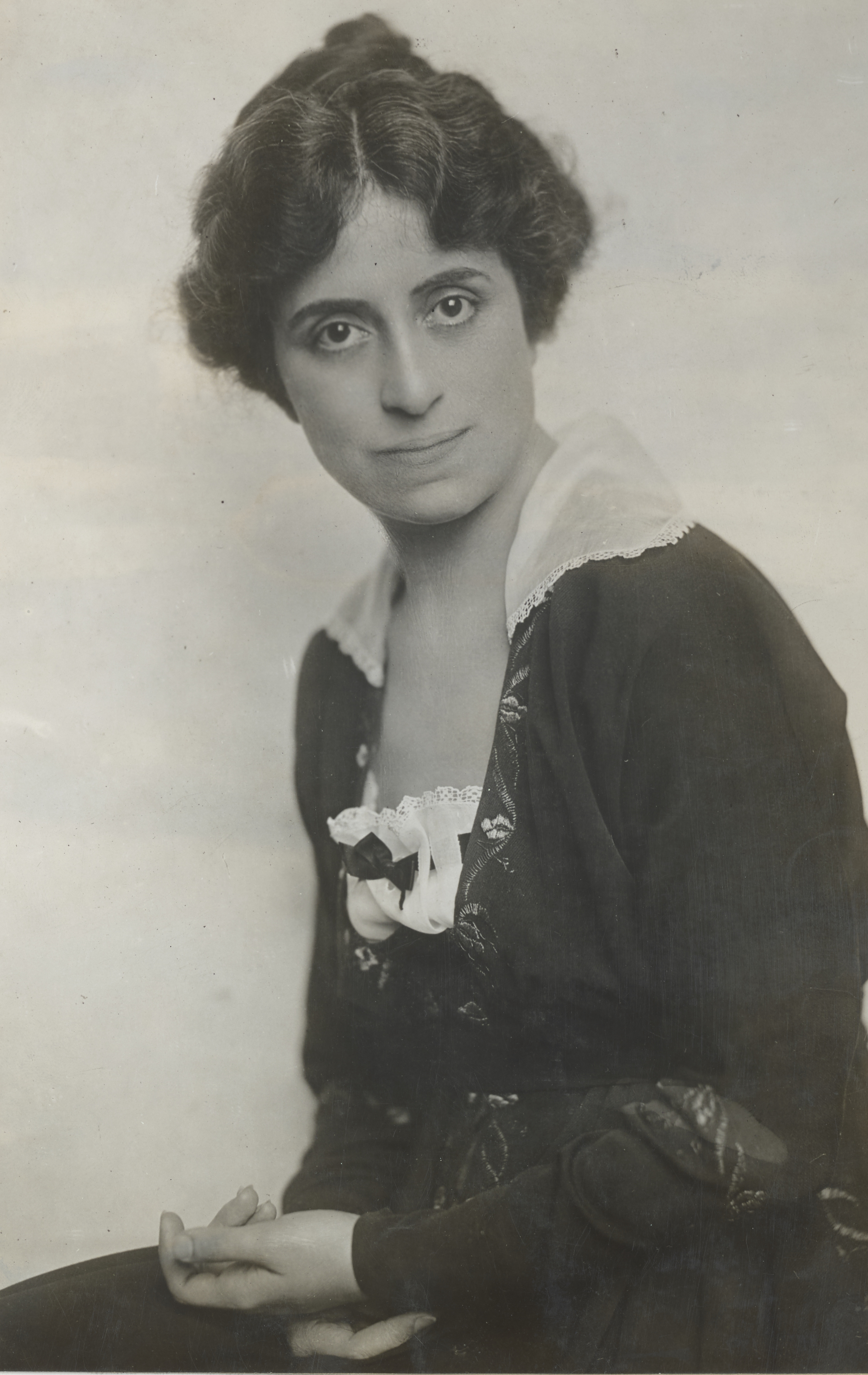 Scope and content: Photographer: U.S. Food Administration